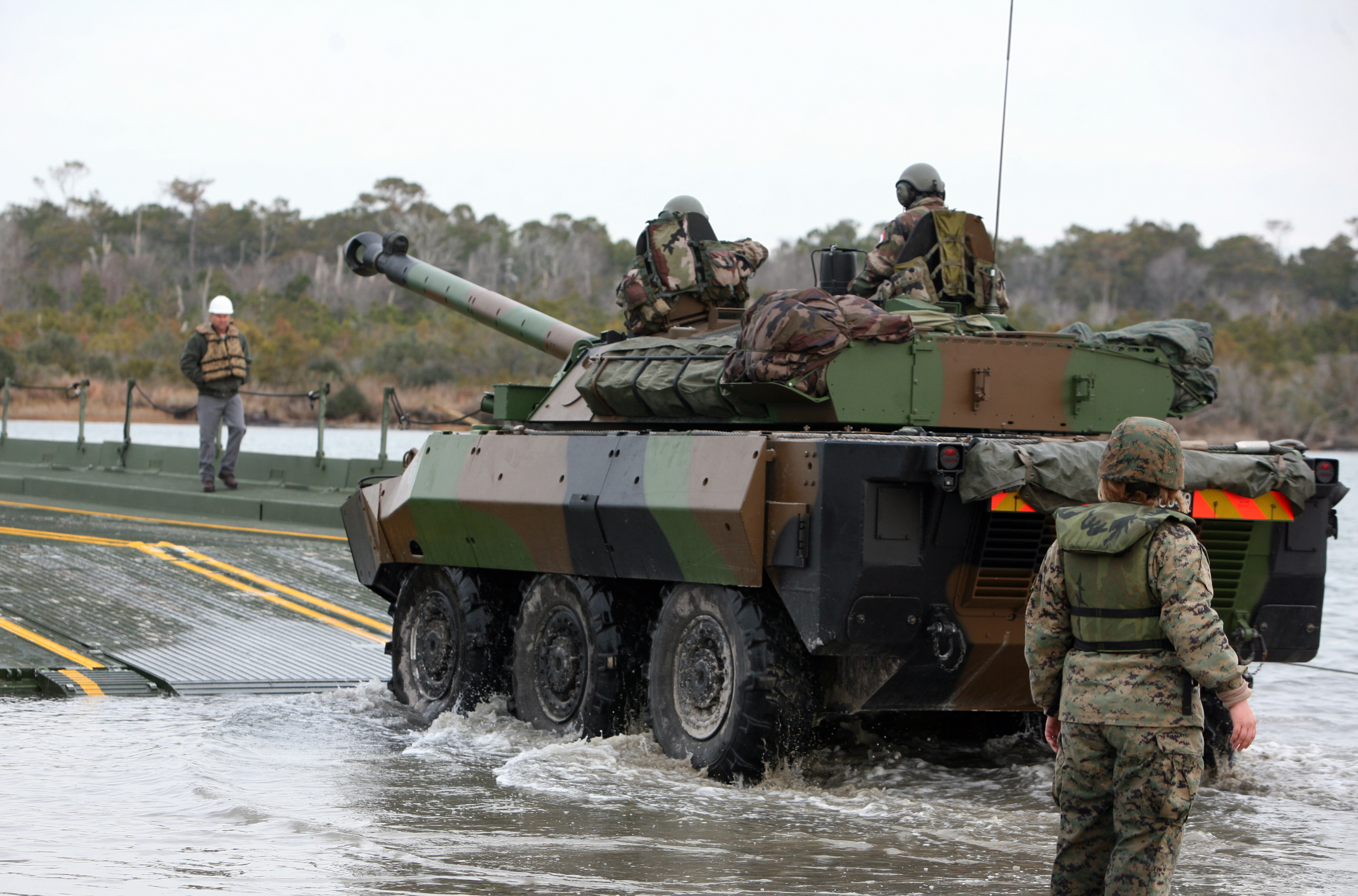 Marines from Bridge Company, 8th Engineer Support Battalion, 2nd Marine Logistics Group direct a French vehicle over an improved ribbon bridge Feb. 6, 2012, aboard Camp Lejeune, N.C. The IRB was used to transport vehicles from one side of the waterway to the other. This event was part of exercise Bold Alligator 2012, an exercise that tested the Marine Corps’ amphibious readiness. (Photo by Sgt. Rachael K. A. Moore)